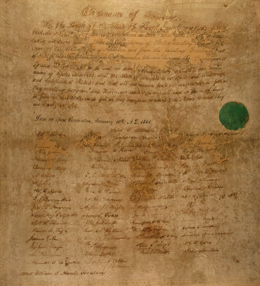 This document is a one-page handwritten copy of the Ordinance of Secession passed on January 10, 1861, by the members of the Florida Convention of the People (commonly referred to as the Secession Convention). Pursuant to an act of the Florida legislature approved on November 30, 1860, Governor Madison S. Perry issued a proclamation calling an election on Saturday, December 22, 1860, for delegates to a convention to address the issue of whether Florida had a right to withdraw from the Union. The Secession Convention met in Tallahassee on January 3, 1861, and passed, on January 10, the Ordinance of Secession. The ordinance declared Florida to be "a sovereign and independent nation." On April 13, the convention ratified the constitution adopted by the Confederate States of America. The convention adjourned on April 27, 1861. Confederate States of America; Politics and government; Secession; United States--History--Civil War, 1861-1865